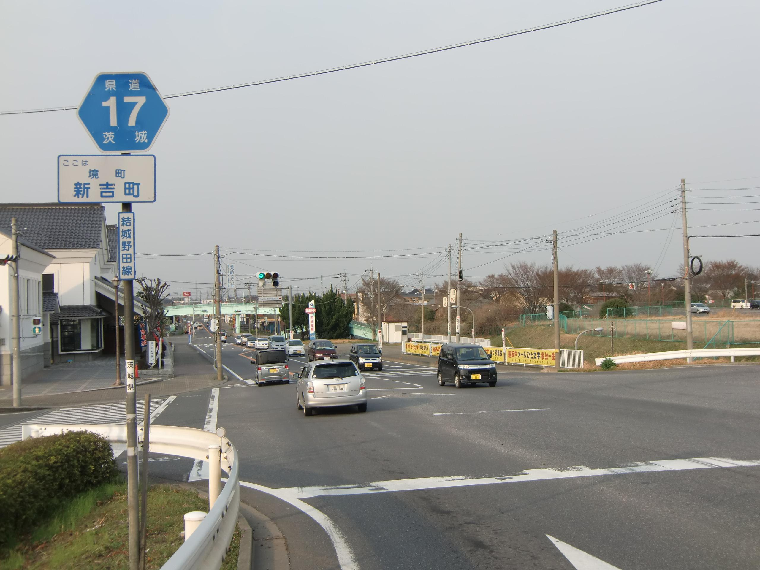 Ibaraki/Chiba prefectural road 17(Yuki-Noda line)in Shinyoshi-machi, Sakai-town, Ibaraki-pref, Japan. This picture was taken near Michino-eki SAKAI.